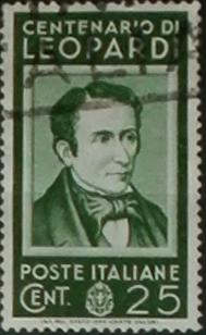 Centenario Giacomo Leopardi - valore da 25 cent - 1937 - italian stamp of the Kingdon of Italy - serie centenari di uomini illustri